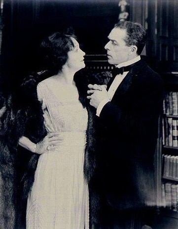 Hedda Hopper and William Faversham in the American comedy drama film The Man Who Lost Himself (1920) - cropped screenshot